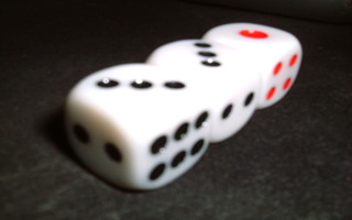 Three dices get together. This photo is for a question.